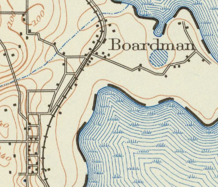 Detail view of Boardman, Florida from a 1938 United States Geological Survey map.